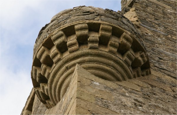 Corbelled turret of Scalloway Castle (Scalloway, Shetland), a trademark of Andrew Crawford, master worker of Patrick Stewart, Earl of Orkney and Shetland.